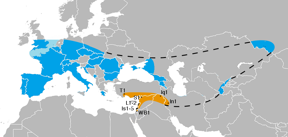 The approximate range of Neanderthals in the Levant (orange) and elsewhere (blue).